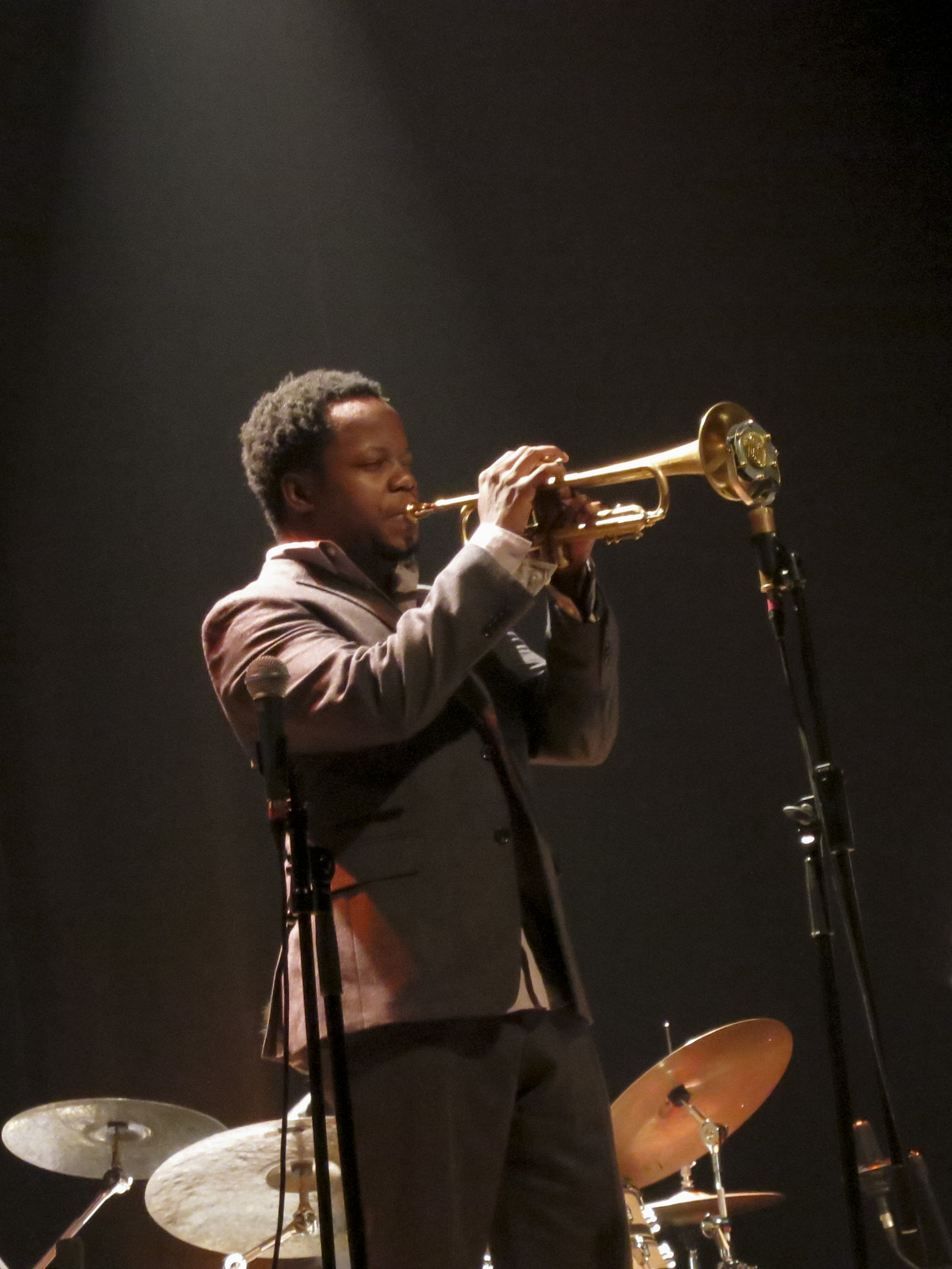 Ambrose Akinmusire, Seixal Jazz, 2014